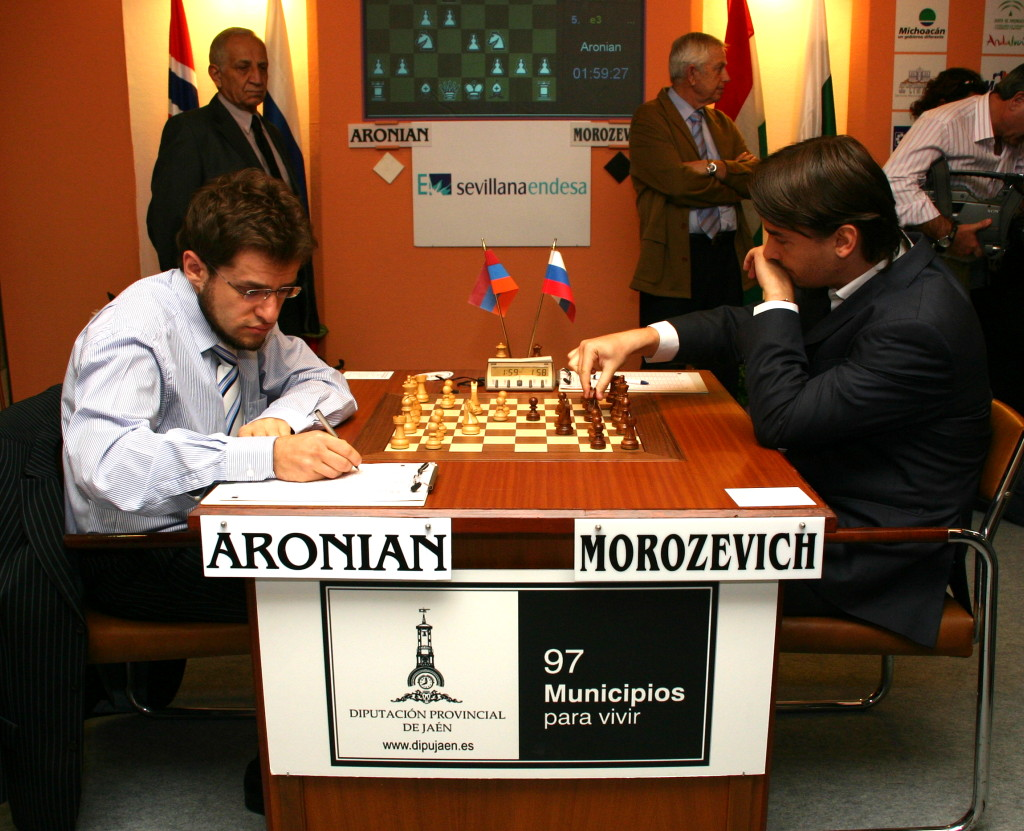 Aronian (blancas) vs. Morozevich (negras)